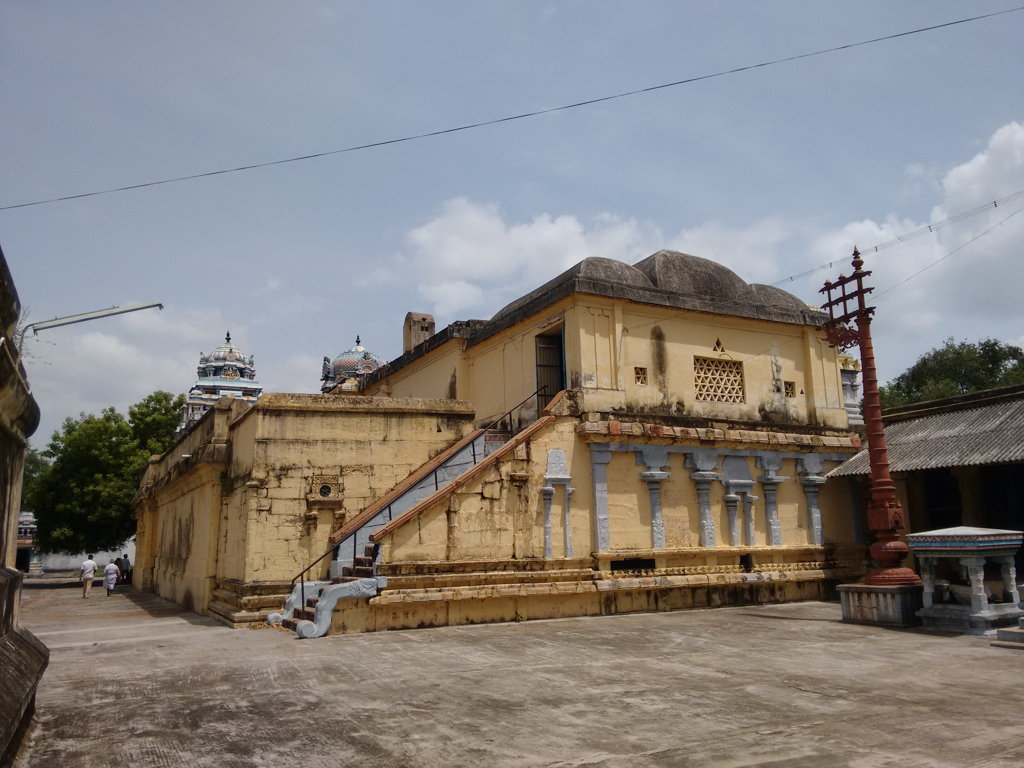 Avur pasupatisvarar temple ஆவூர் பசுபதீஸ்வரர் கோயில்